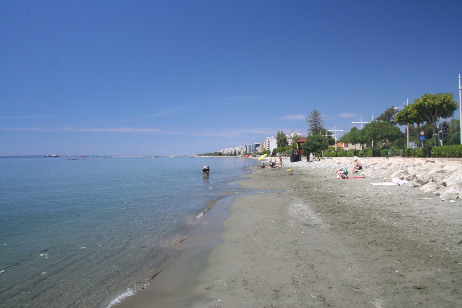 View of Limassol